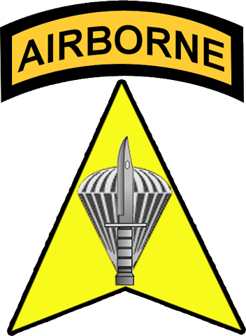 Seal of the Philippine Army 1st Special Forces Regiment (Airborne)